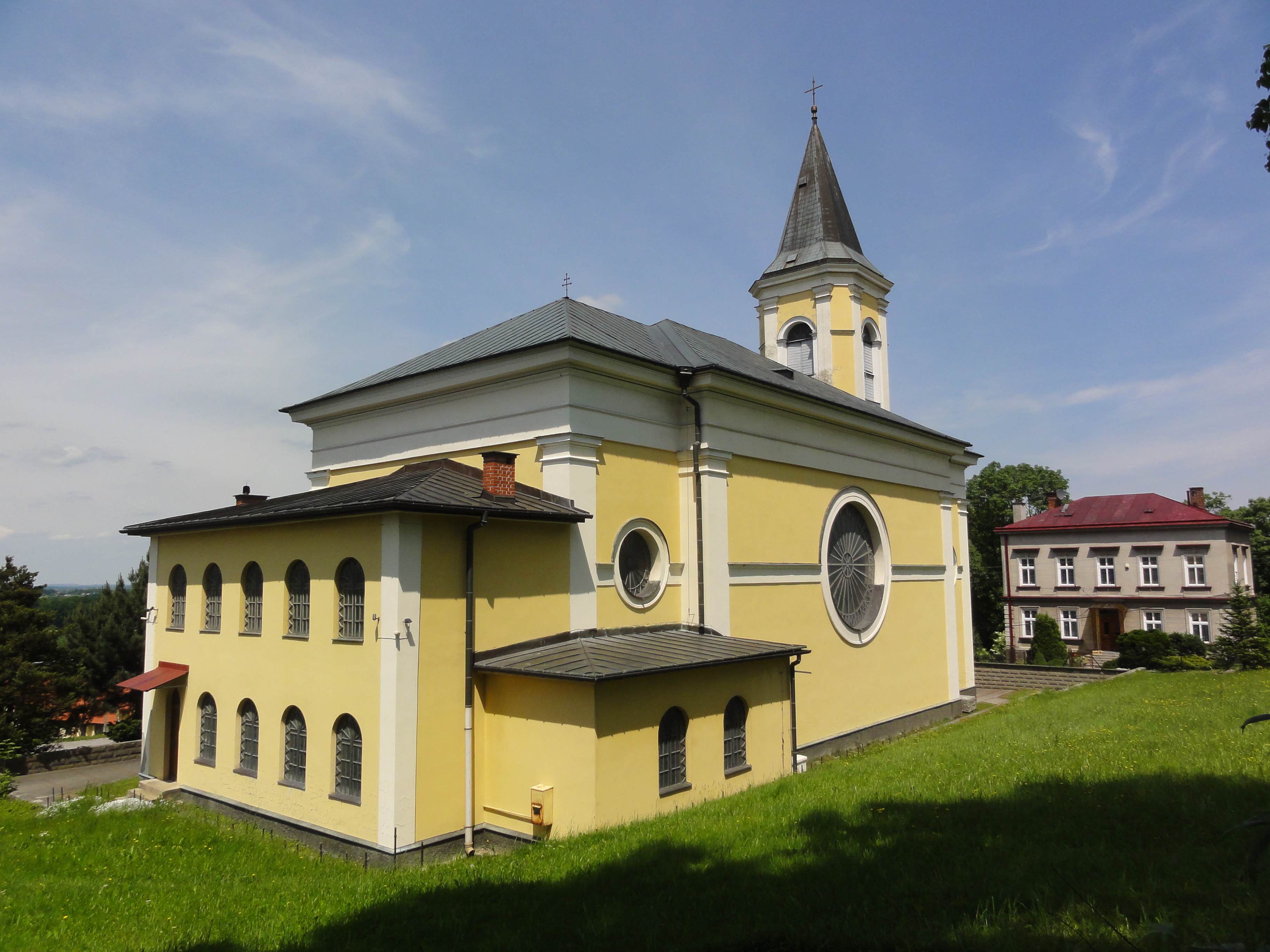 Kościół św. Mateusza w Ogrodzonej